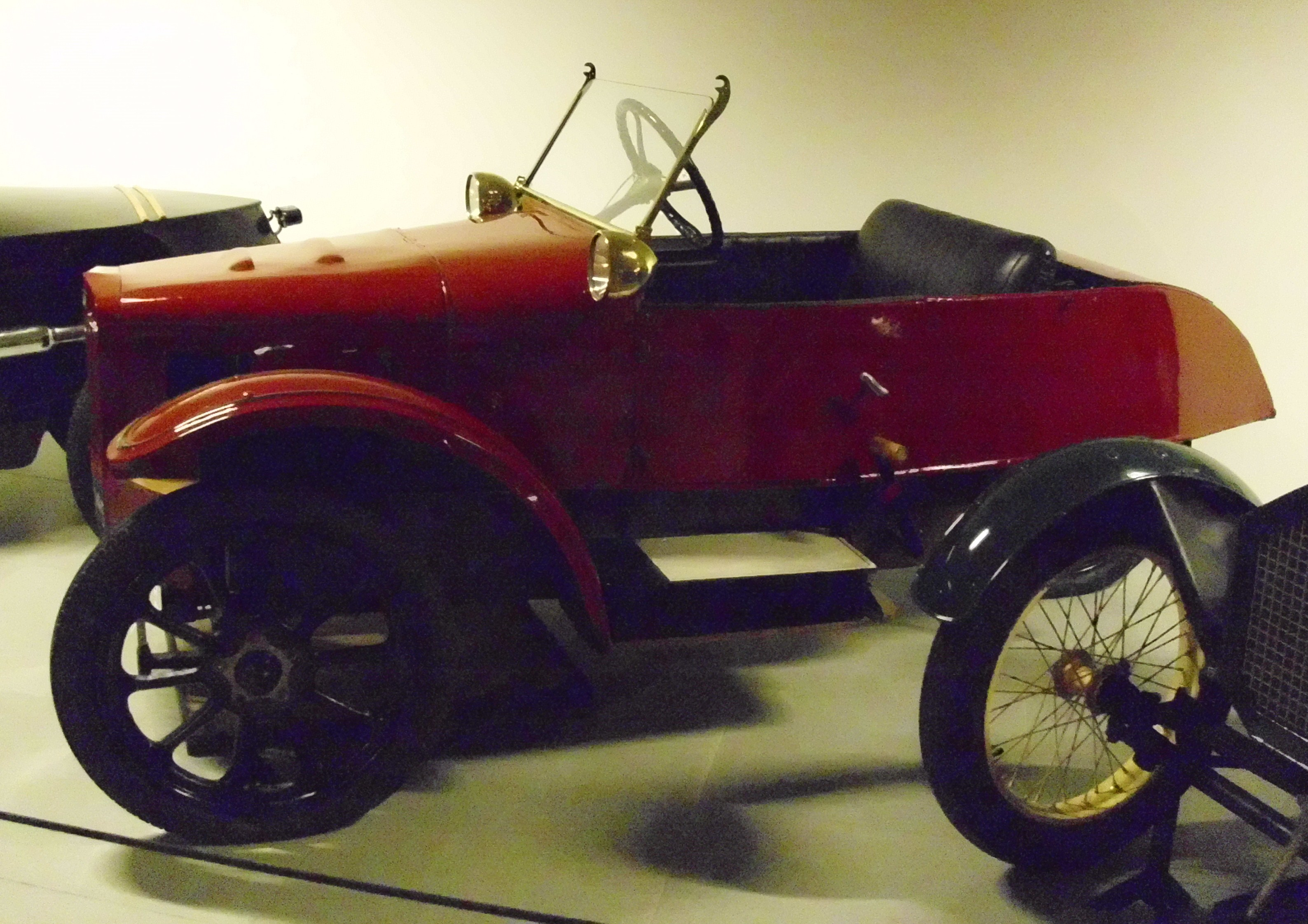 LSD Family 1923